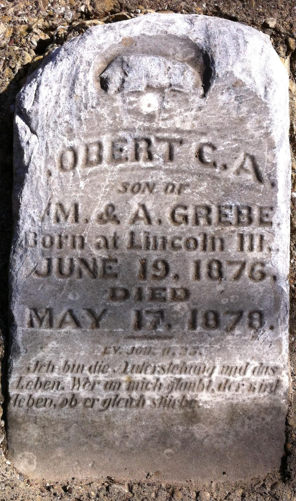 Tombstone in Pioneer Park Cemetery in Dallas. When broken, it was laid horizontally in concrete. Notable for the family facts in English, but a Bible verse carved in German, John 11:25.